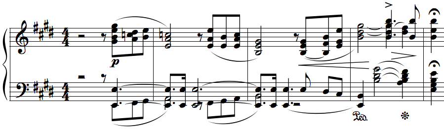 Piano Concerto No. 1, Mvt. I (Op. 59), composed by Moritz Moszkowski. Excerpt from first movement.